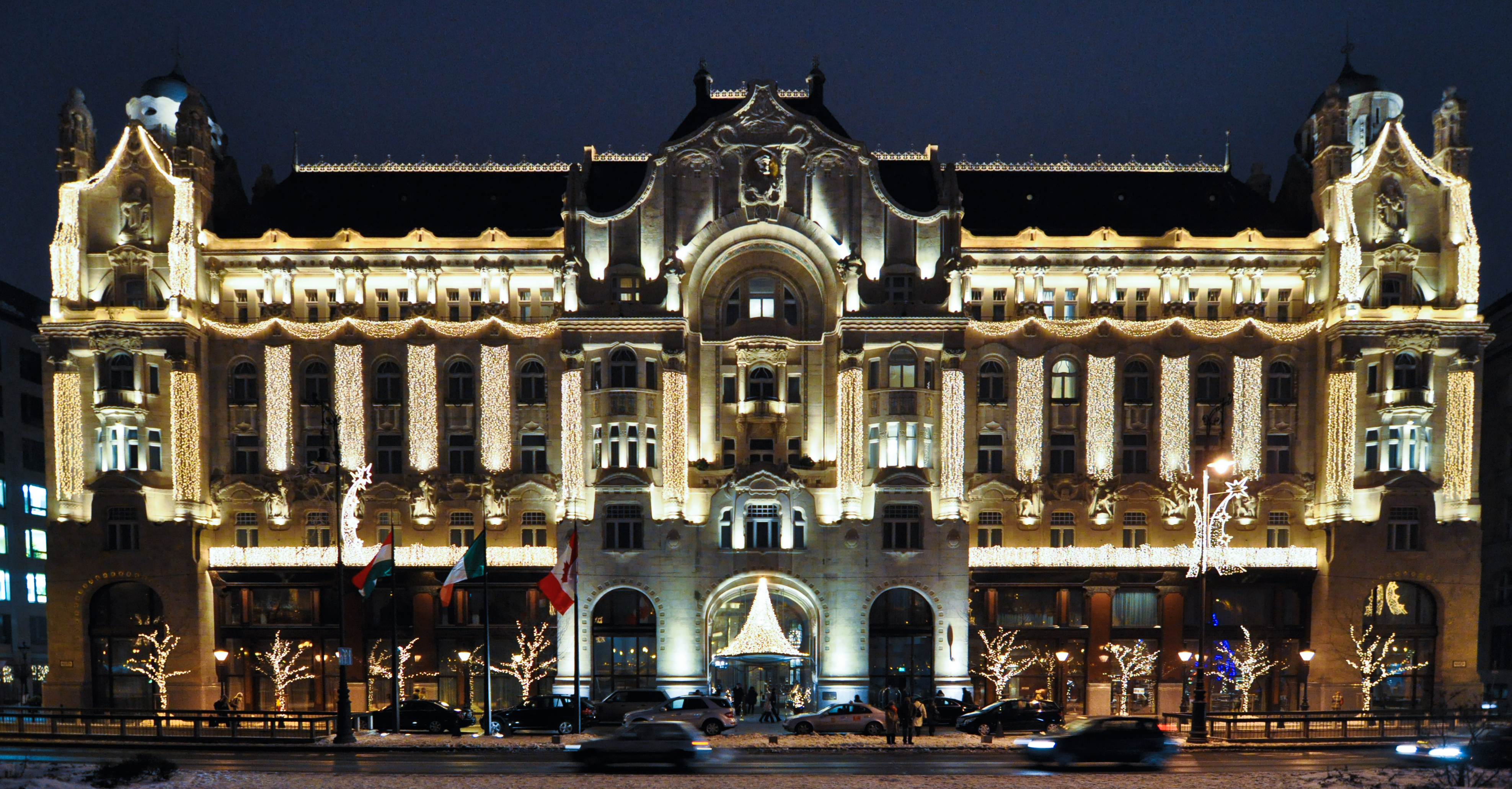 Night shot of the Four Seasons Hotel in Budapest